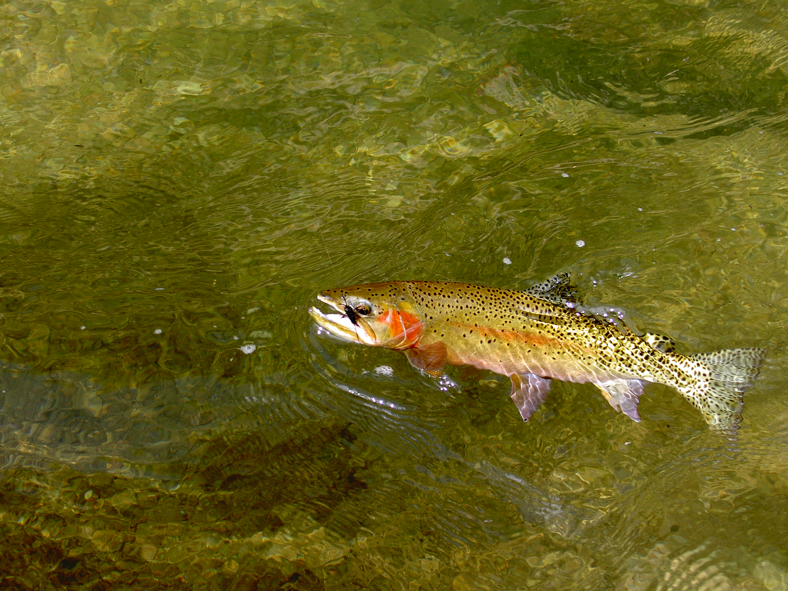 Photo taken while fishing the strawberry river in Utah